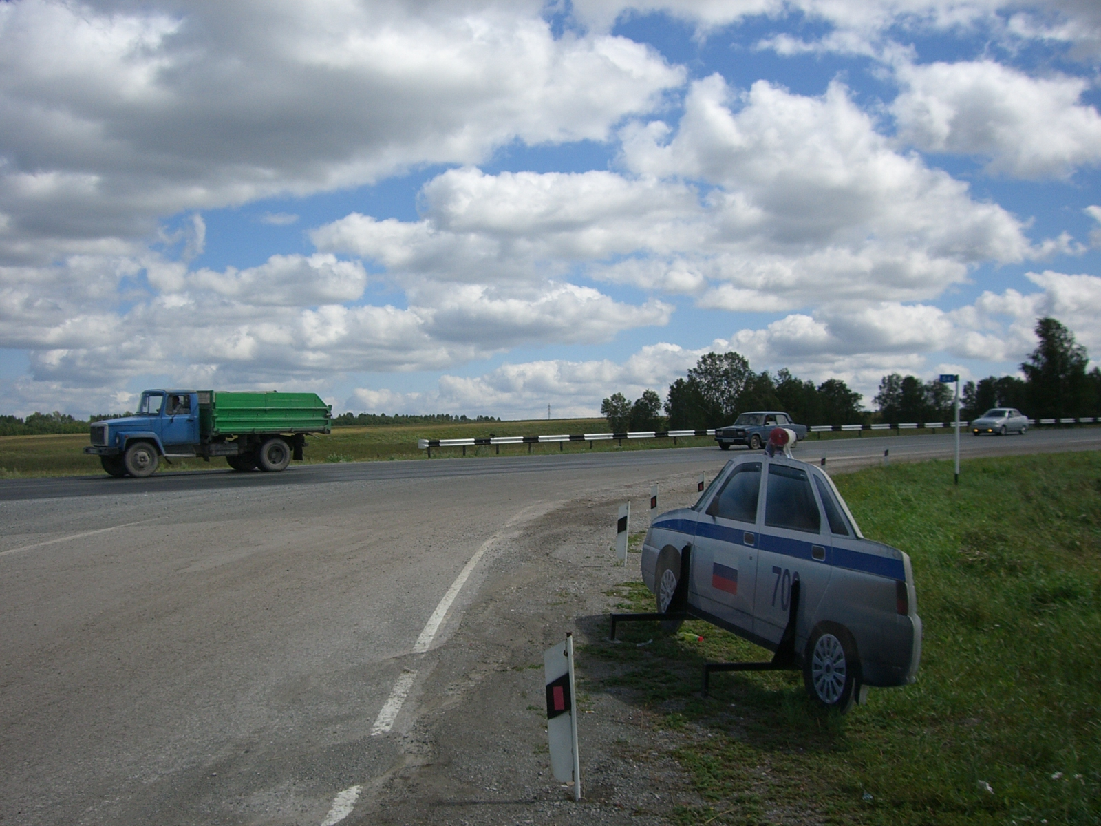 A fake road police car in Russia - drivers are supposed to slow down seeing it.